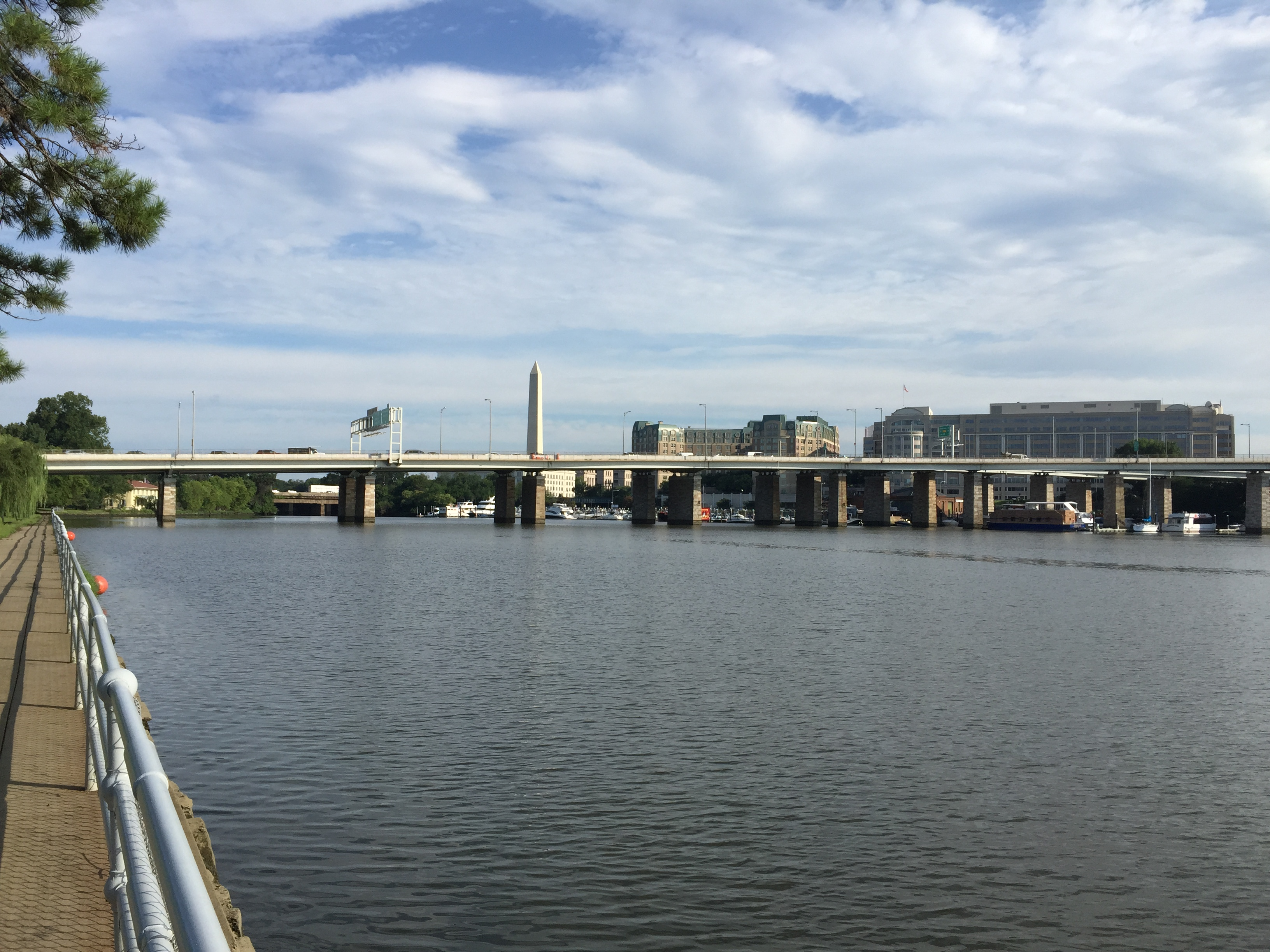 Francis Case Bridge carrying I-395 over Washington Channel in Washington, D.C. in 2015